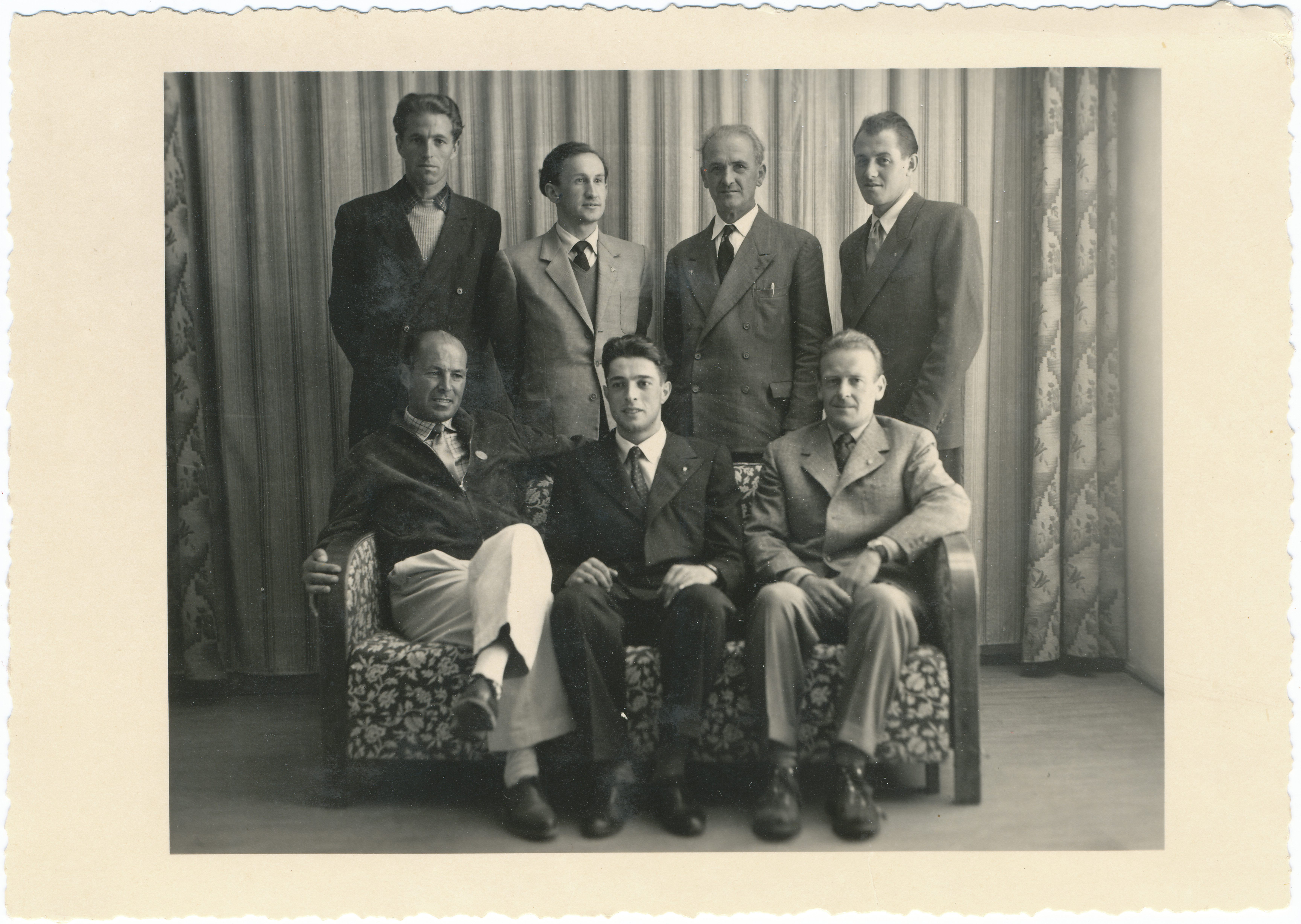 Urtijei 28-9-1954 Foto by Alex Moroder